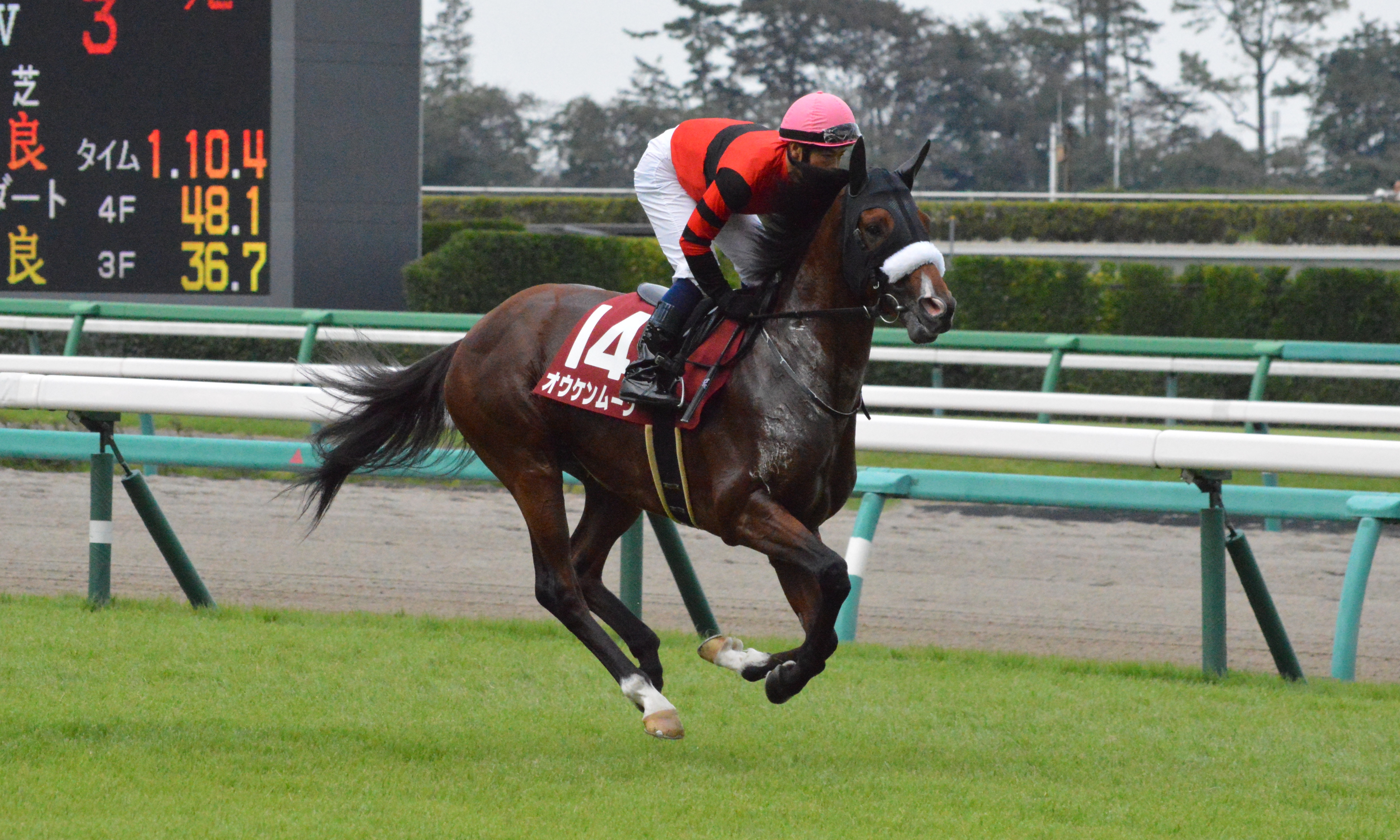 Japanese race horse Oken Moon at Nakayama racecourse. Nakayama (JPN) 17 Sep 2018Asahi Hai St. Lite Kinen (Grade 2) (3yo) (Turf) 1m3f Firm RankHorse NameOddsAgeWgtJockeyTrainer1stGenerale Uno (JPN)63/10C38-11Hironobu TanabeEiichi Yano5thOken Moon (JPN)51/1C38-11Hiroshi KitamuraSakae KuniedaOthers are omitted. (15 horses entered in a race.)